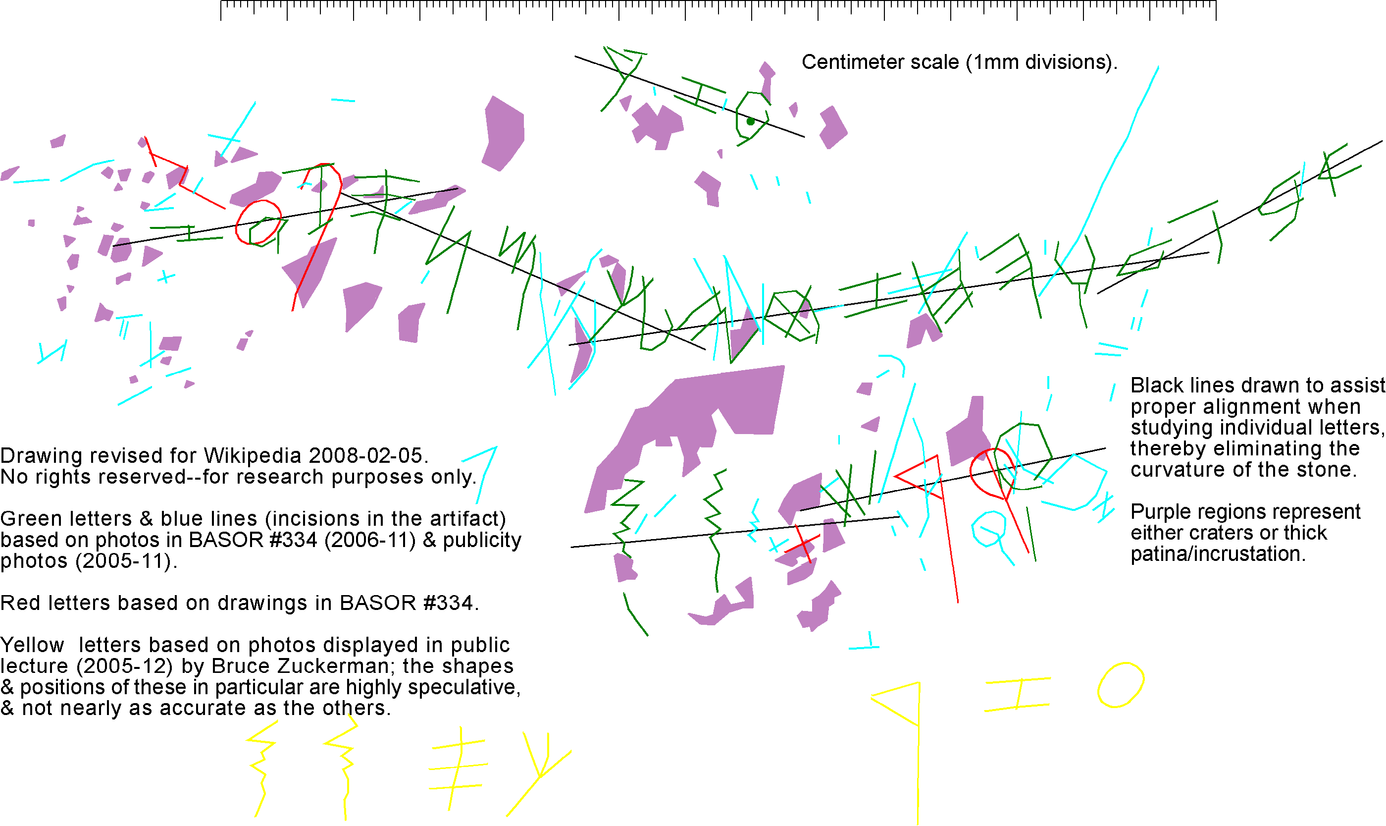 This is a drawing I made of ancient inscriptions & other markings on the Zayit Stone excavated in modern Israel during 2005. I grant any entity the right to use this work for any purpose, without any conditions, unless such conditions are required by law.